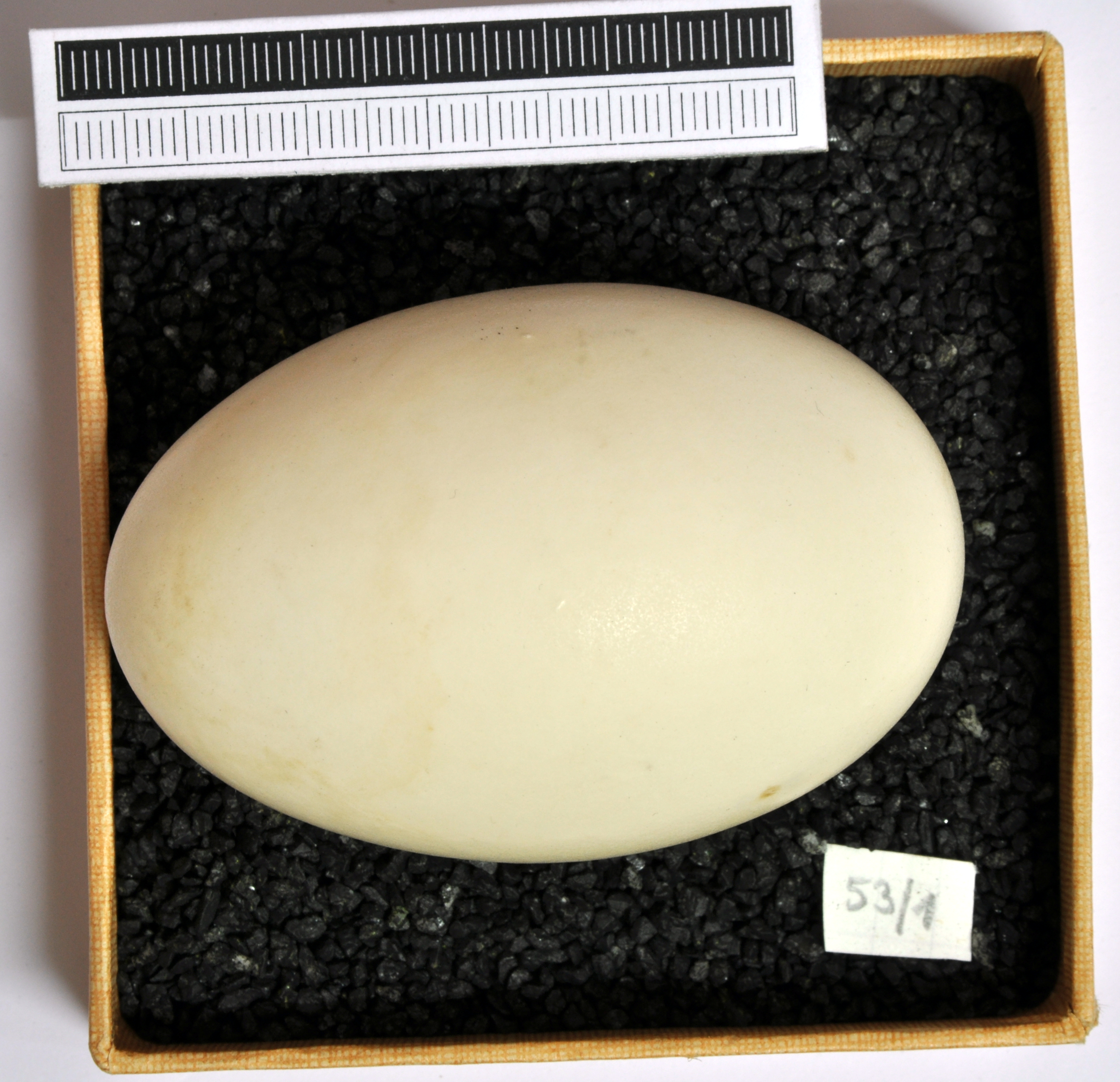 Common shelduck Tadorna tadorna, egg, Coll. Museum Wiesbaden, Origin: Rhone-Delta, France, 05.06.1963, leg. W. Abelmann